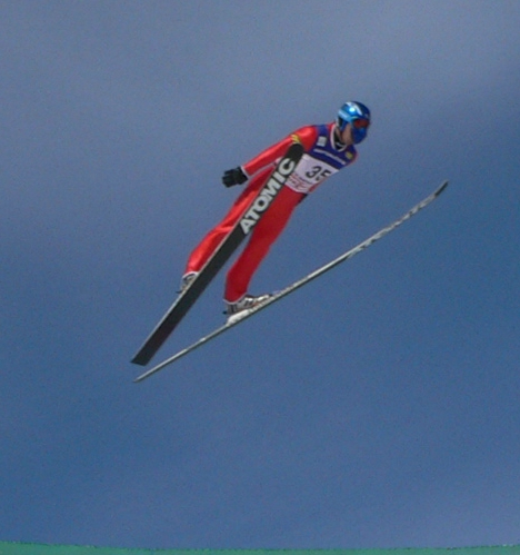 From the nordic combined event in Holmenkollen on 12.3.2005.